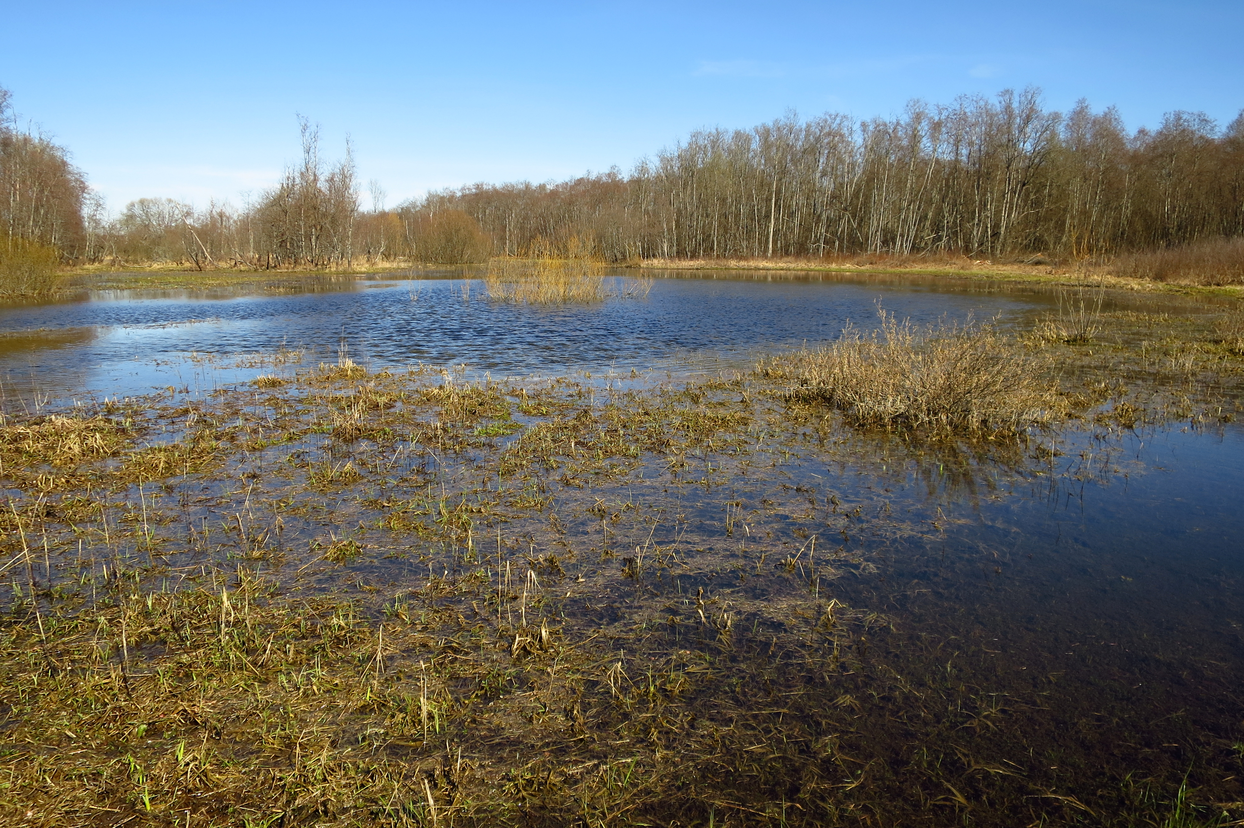 Kuksema karstijärv Kuksema karstihäilus kevadel